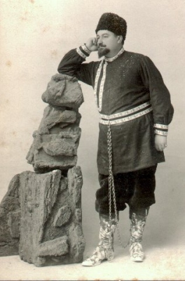 Vassili, Siberia, ALGER